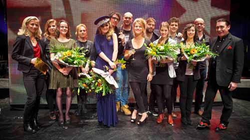 EBBA Awards 2012 -- All Winners -- by Mike Breeuwer